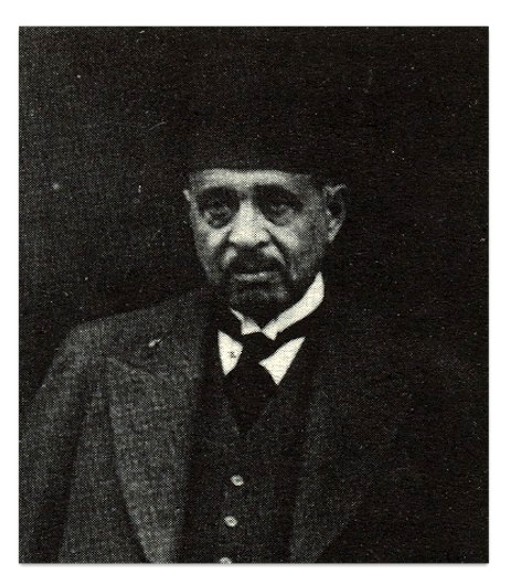 Muhammad Tawfiq Nasim Pasha (1874 - 1938), prime minister of Egypt (1920-1921, 1922-1923, 1934-1936).